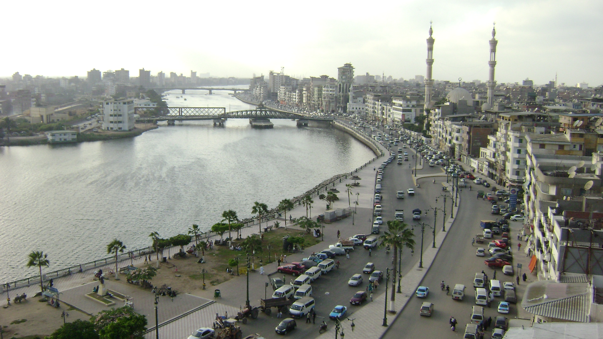 Damietta